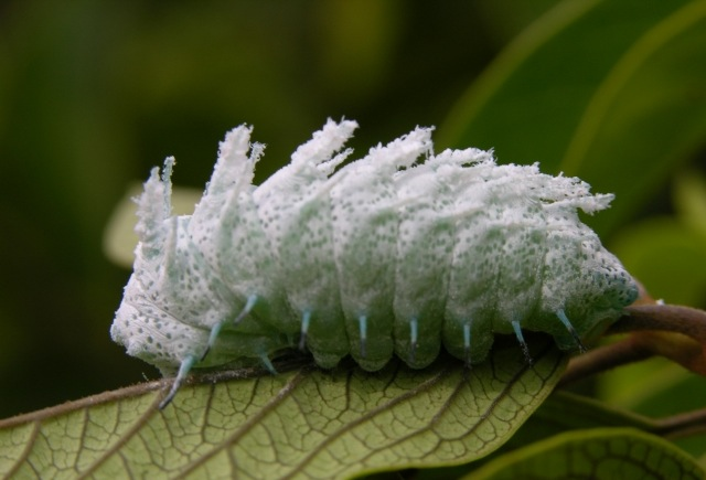 Attacus atlas caterpillar